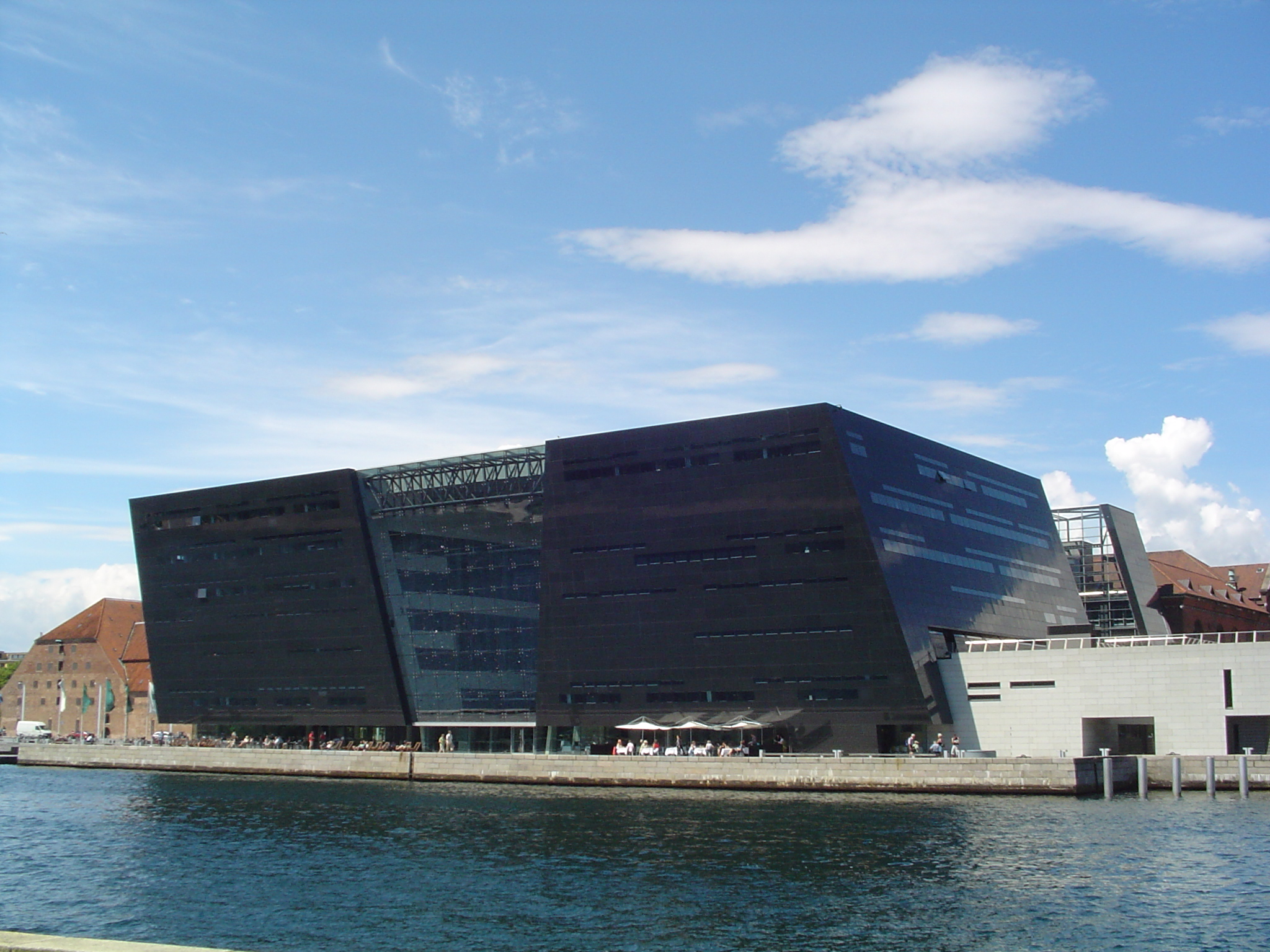 The new building ("Black Diamond") of the Danish Royal Library on Slotsholmen in Copenhagen, viewed from the South-East. Taken by user:Thue in the summer of 2005.